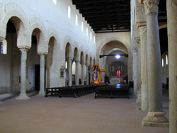 see user:Attilios talk for images from